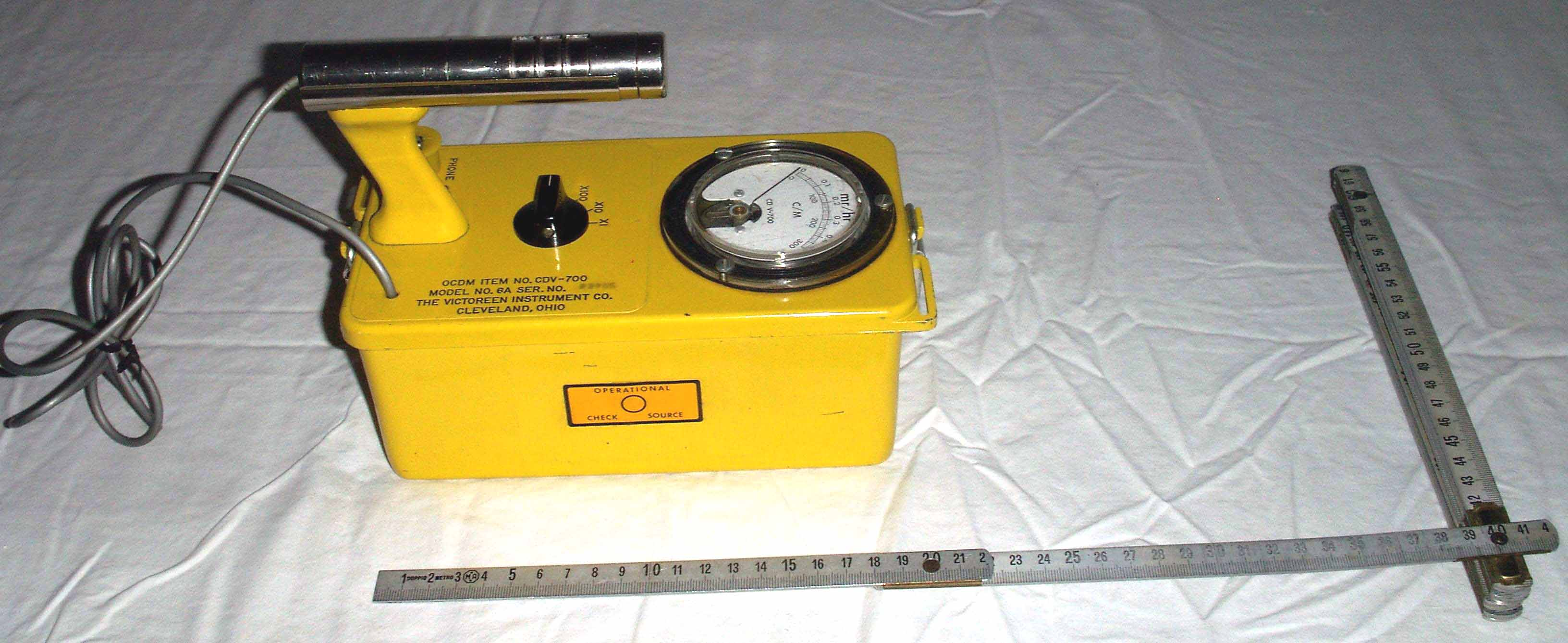 Victoreen Civil Defence V-700 side right view